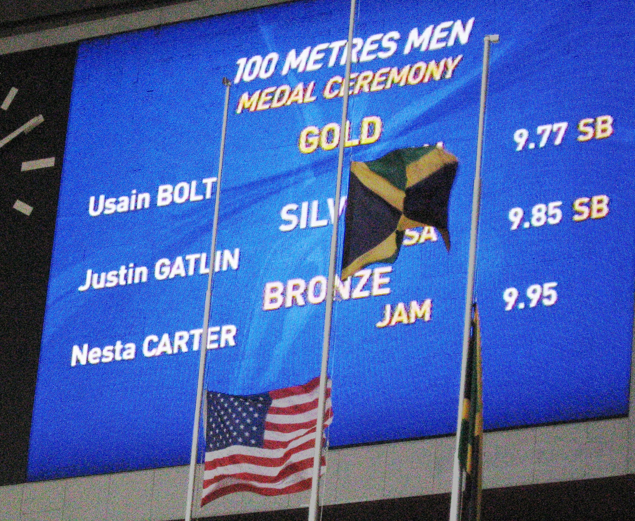 The second day of the World Championships in Athletics in Moscow 2013